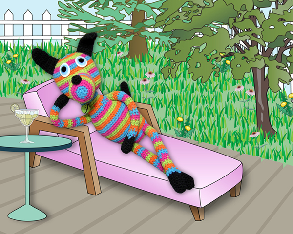 sammy the striped dog that I crocheted shows how he spent his summer. another of my digital collages: a little photoshop, powerpoint and illustrator combination.